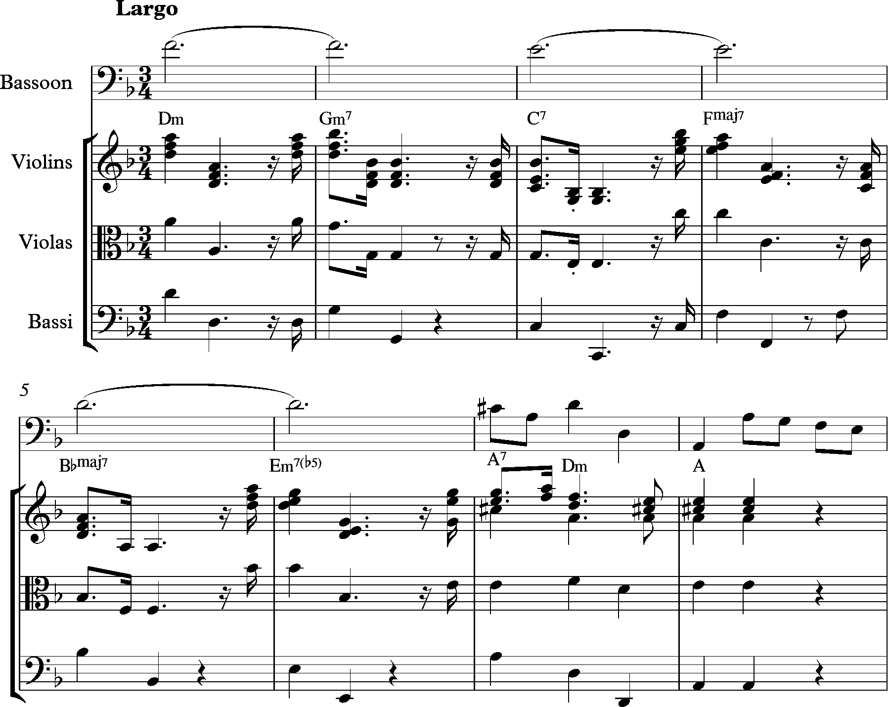 Handel, aria "Pena tiranna" from Amadigi. Orchestral introduction.